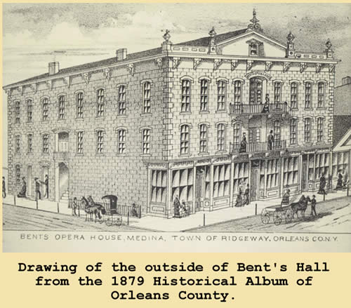 Bent's Hall, 1879.